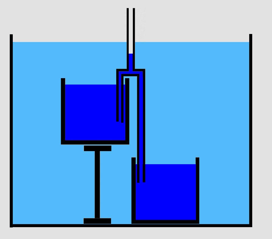 A diagram of Pascal's siphon, using some elements of File:SiphonNoTensileStrengthNeeded.svg for consistency in style across article.